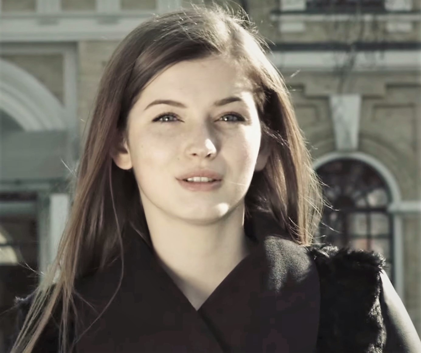 Ukrainian artist and model Anna Zayachkivska, Miss Ukraine 2013, speaking for the antiwar project "Peaceful Hundred".